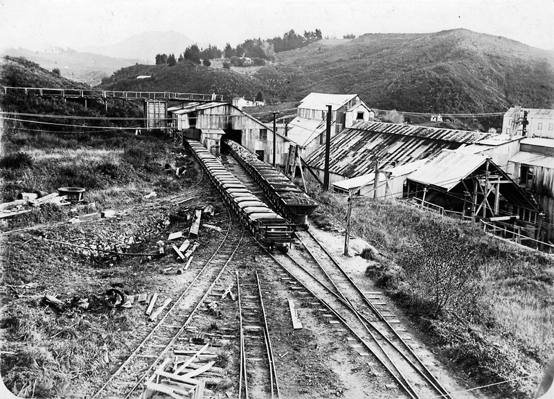 Waihi-Waikino Gold Tramway, The Rake, Two rakes of trucks at the Victoria Battery stone breakers. c.1940s, Stubbs Collection